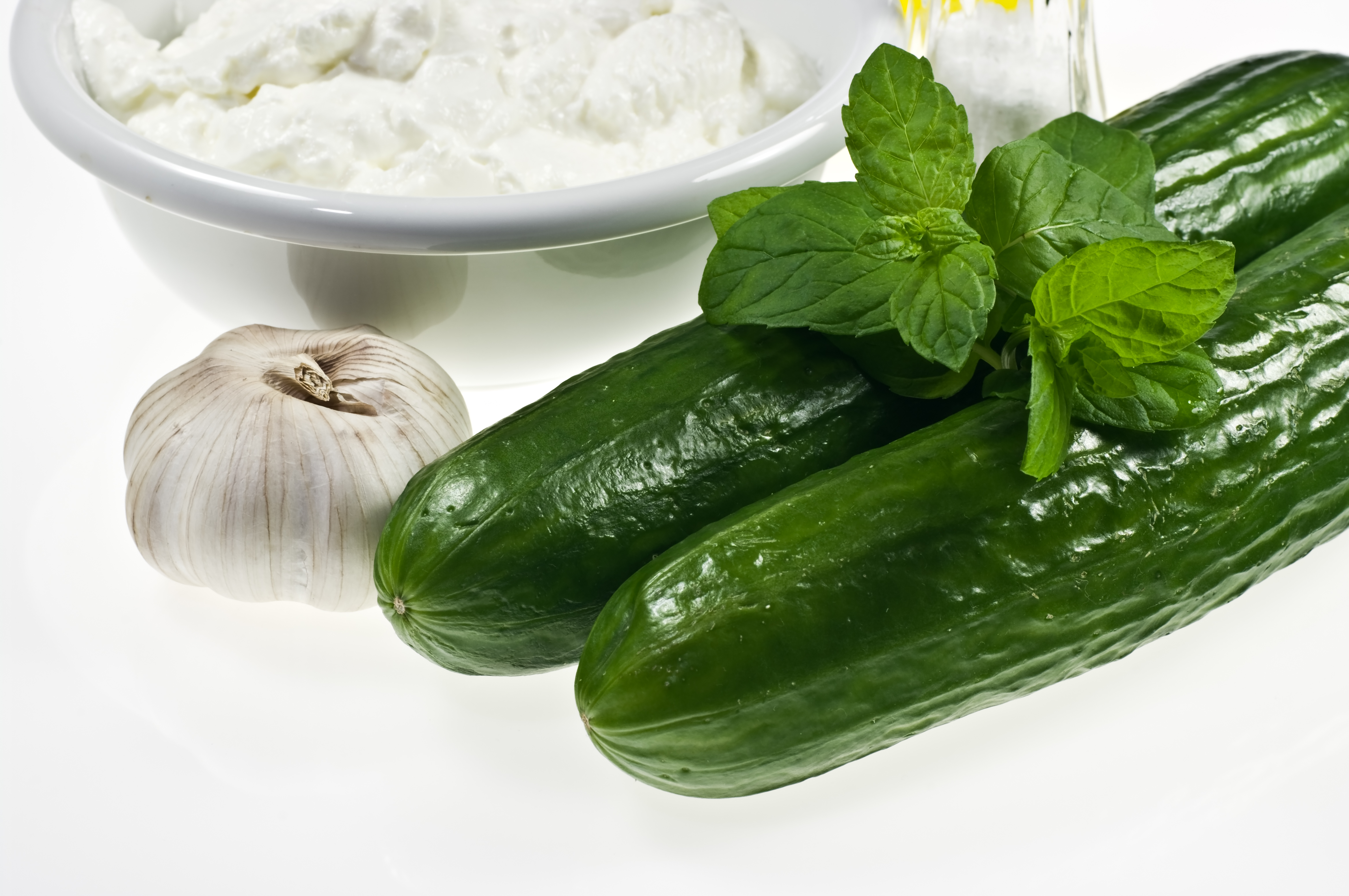 Igredients of tzatziki: Greek yoghurt, cucumbers and garlic.